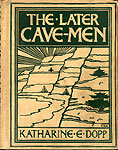 Book cover of "The later cave men" by Katharine Elizabeth Dopp, published 1907 in Chicago